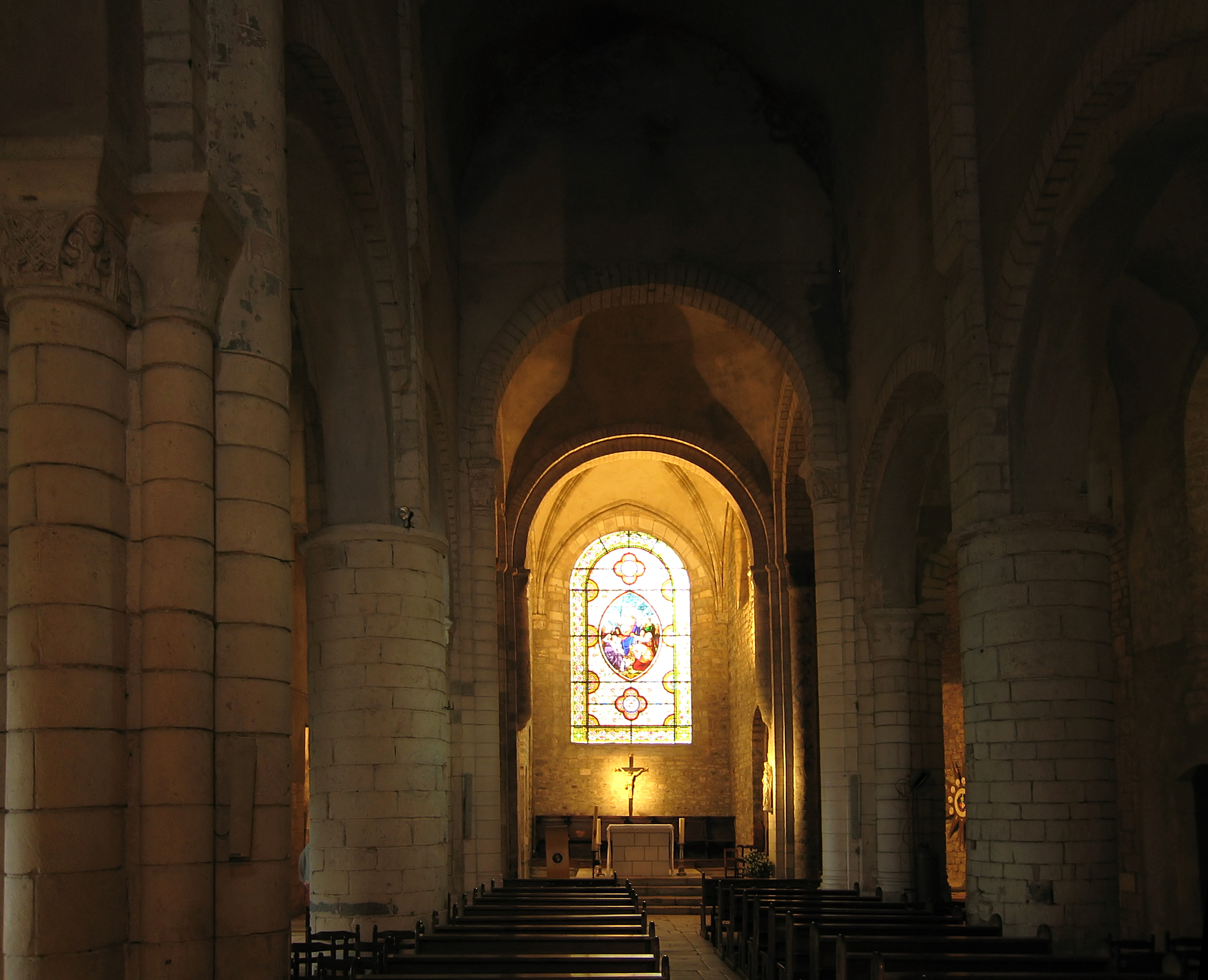 Village of Carennac, situated in the Département of Lot/France - abbey church, interior